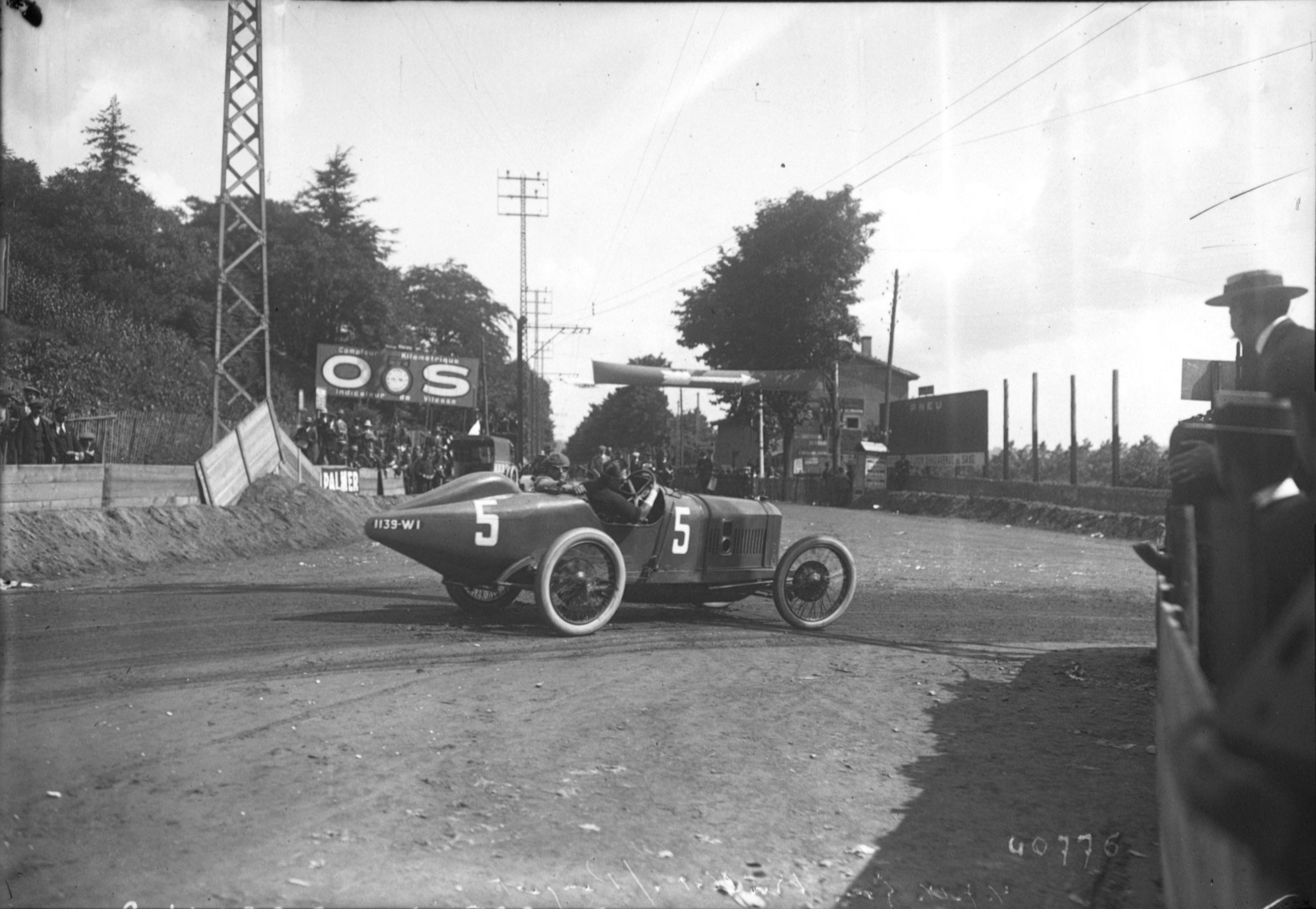 Georges Boillot at the 1914 French Grand Prix